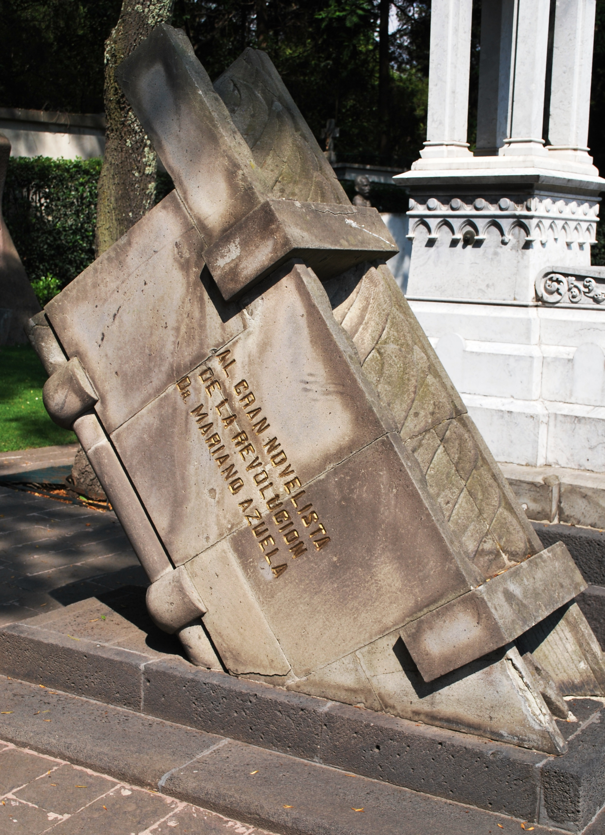 Tomb of Dr Mariano Azuela in the Panteon Civil de Dolores cemetery in Mexico City